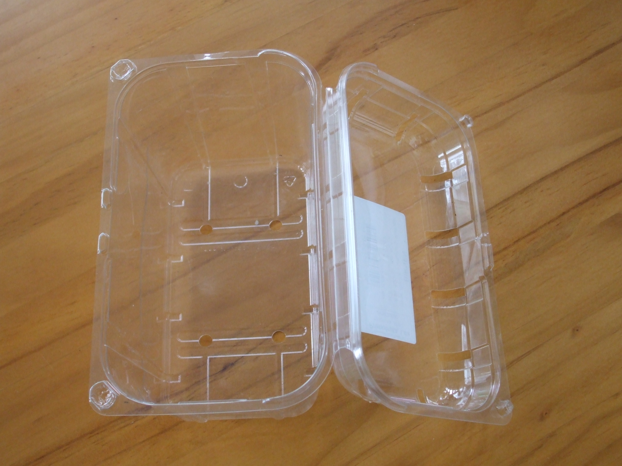 PET-Box